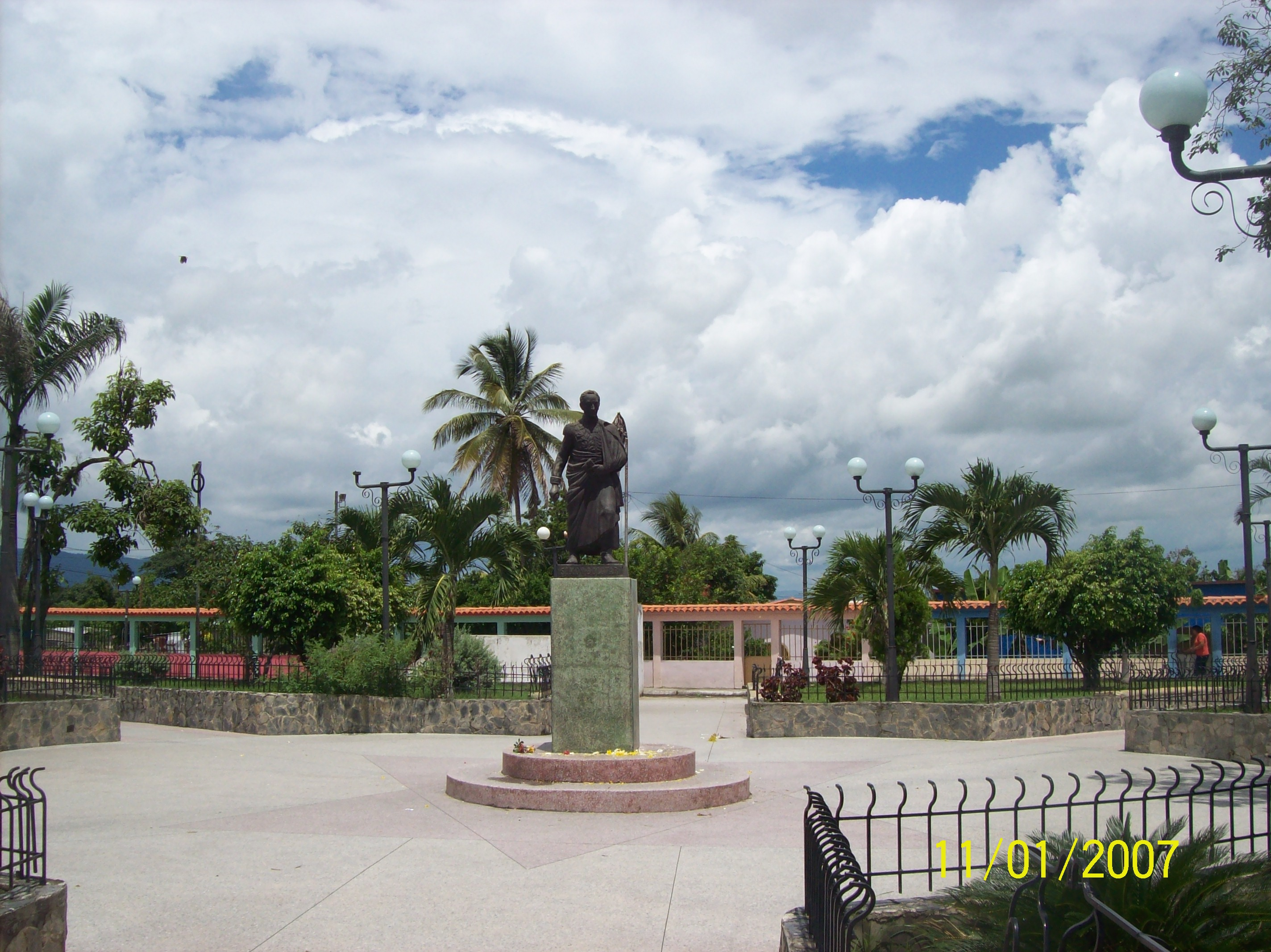 Bolívar square of Sabana de Parra, Capital of the Municipality Jose A. Paez, Yaracuy state. Venezuela